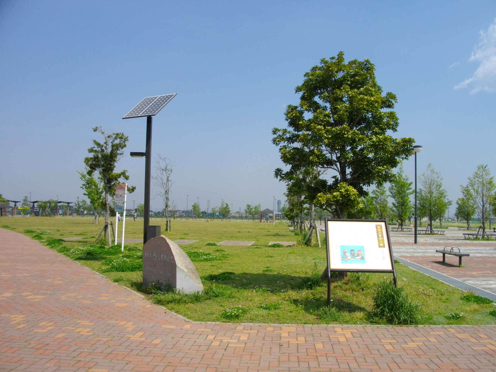 Mitakata Site Park